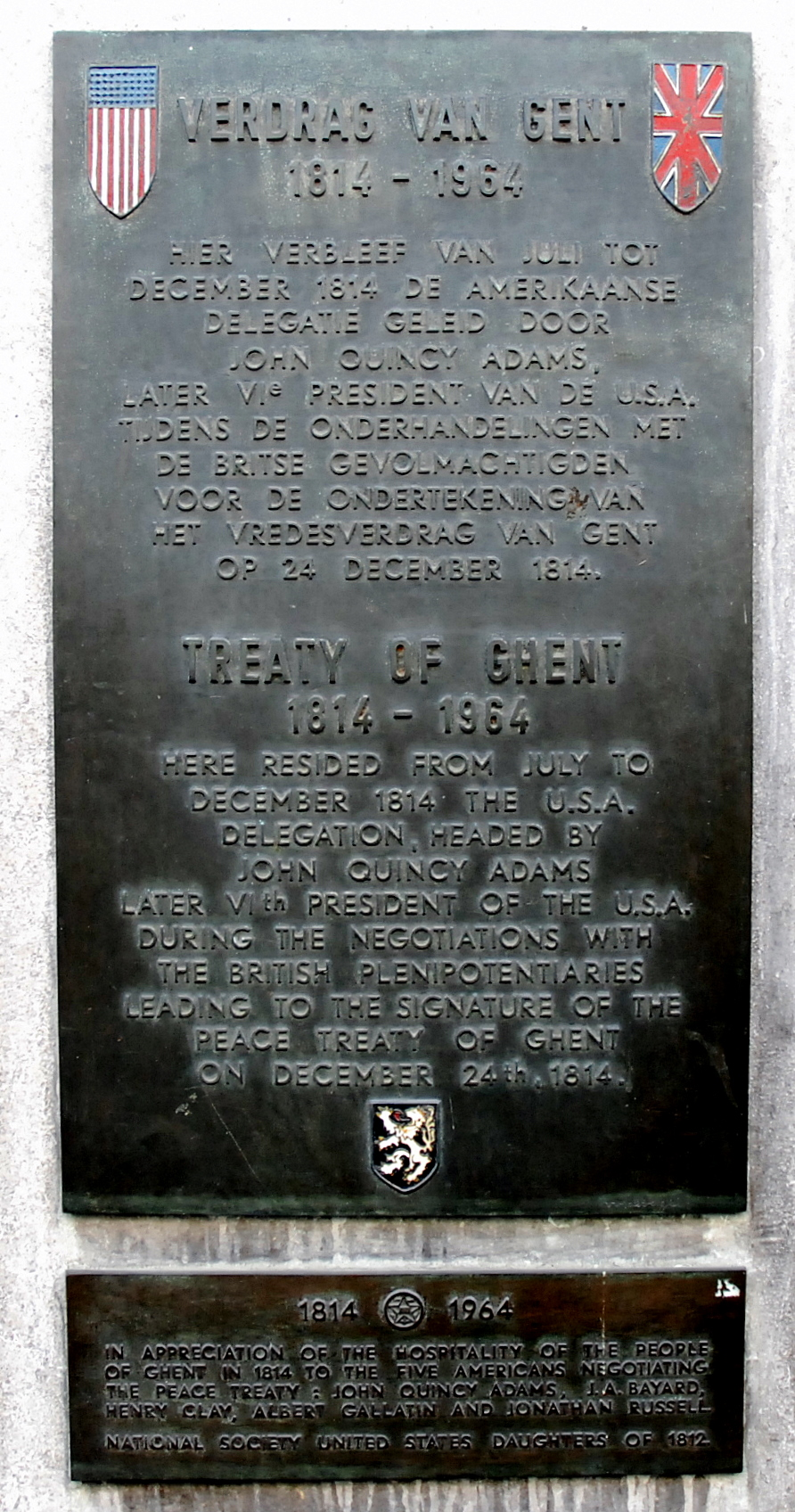 Plaquette commemorating the Treaty of Ghent in Ghent, Belgium